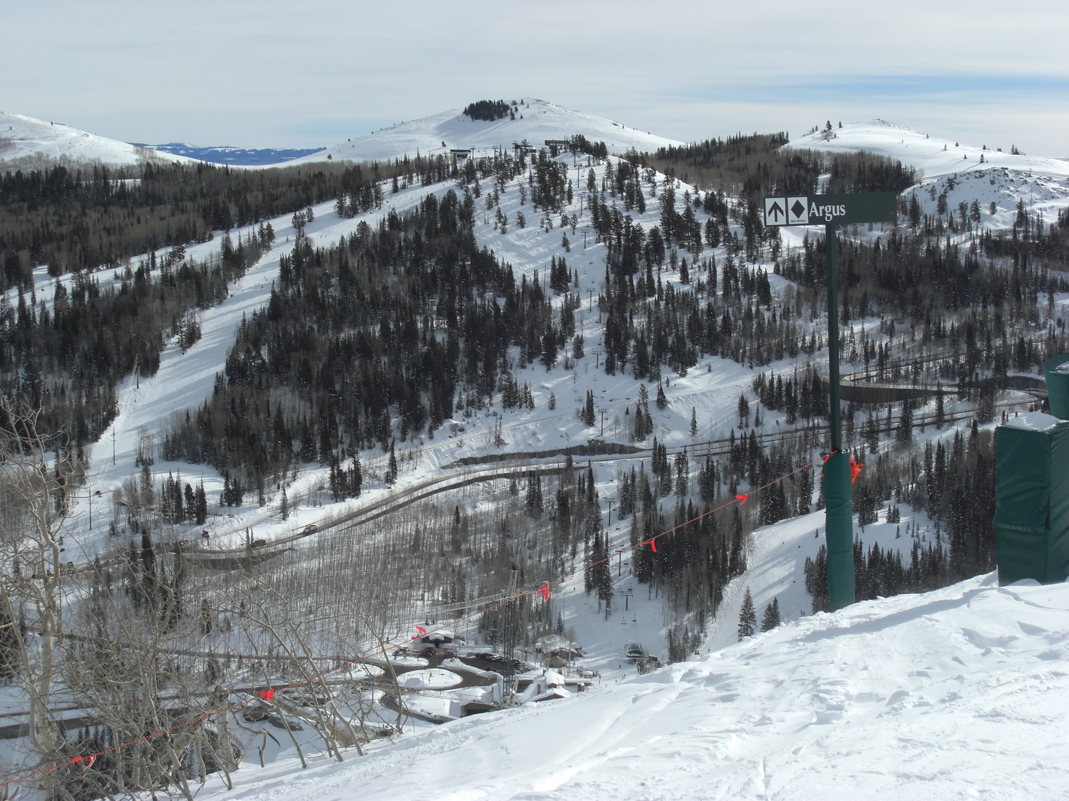 View of the Ruby Express chairlift from Lady Morgan Mountain in Deer Valley Resort (Park City, UT).